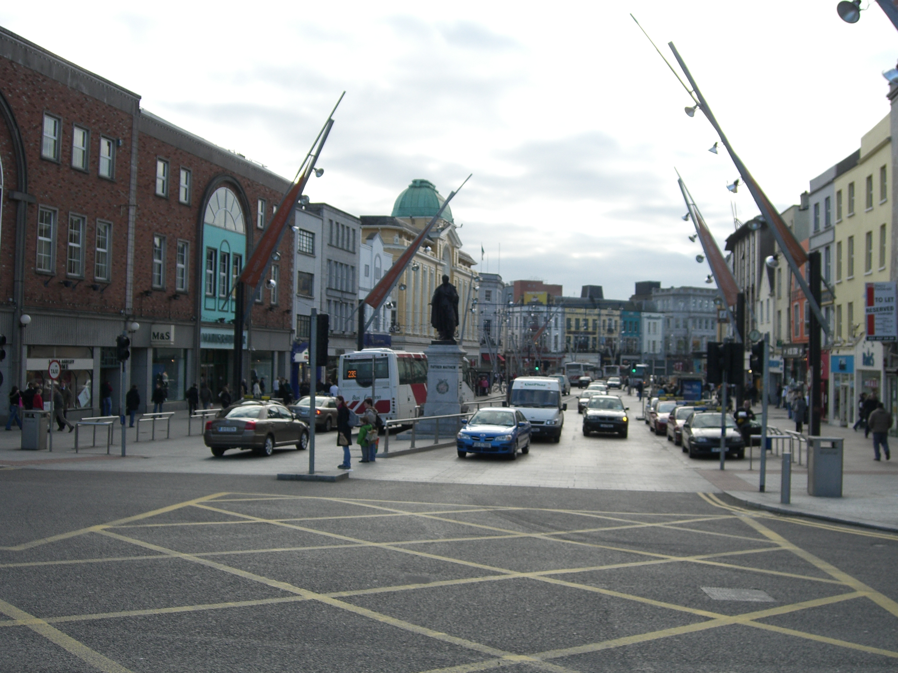 Patrick Street, Cork, Irlanda Fonte - Próprio autor